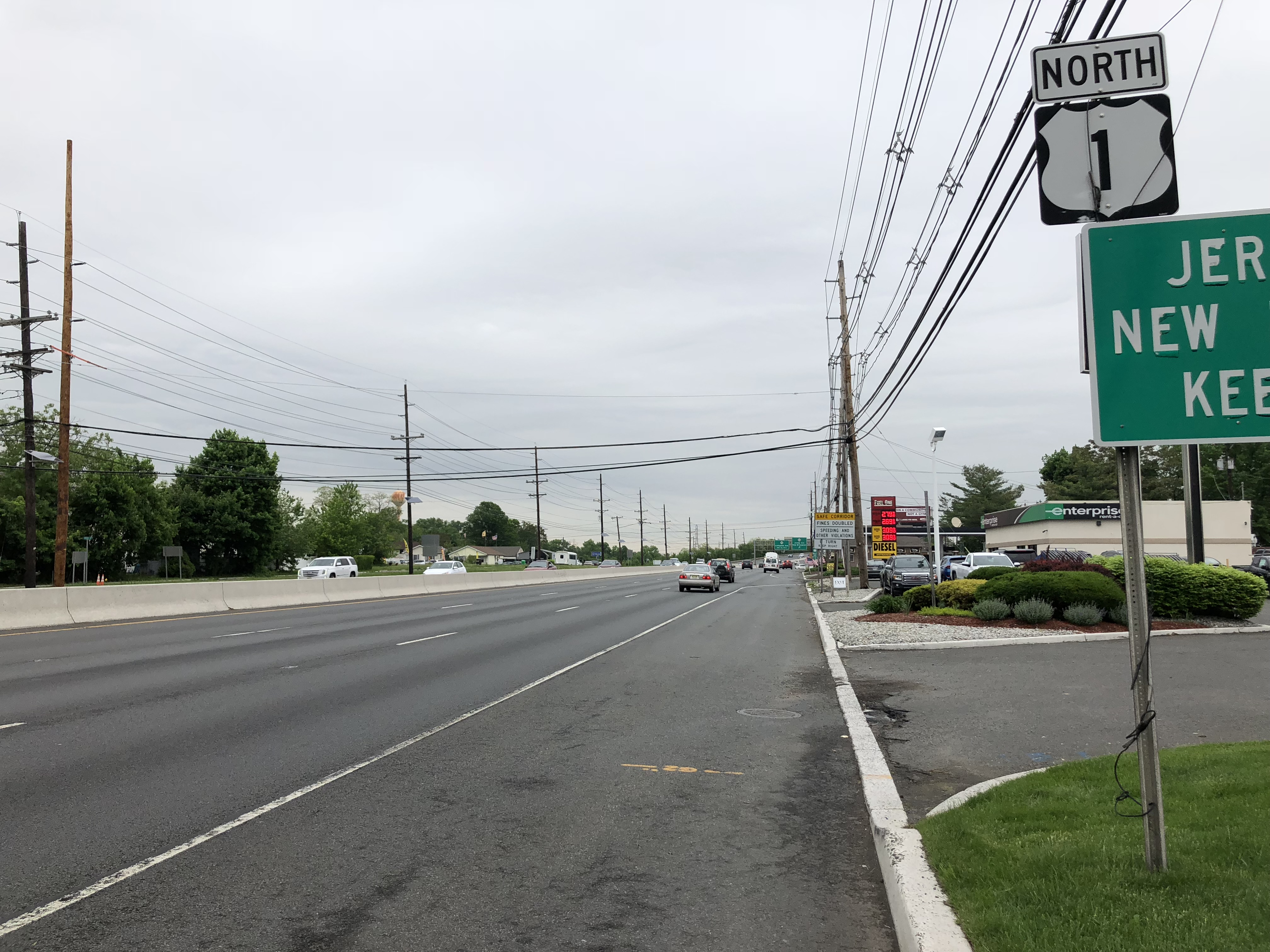 View north along U.S. Route 1 just north of Adams Lane (Middlesex County Route 608) in North Brunswick Township, Middlesex County, New Jersey